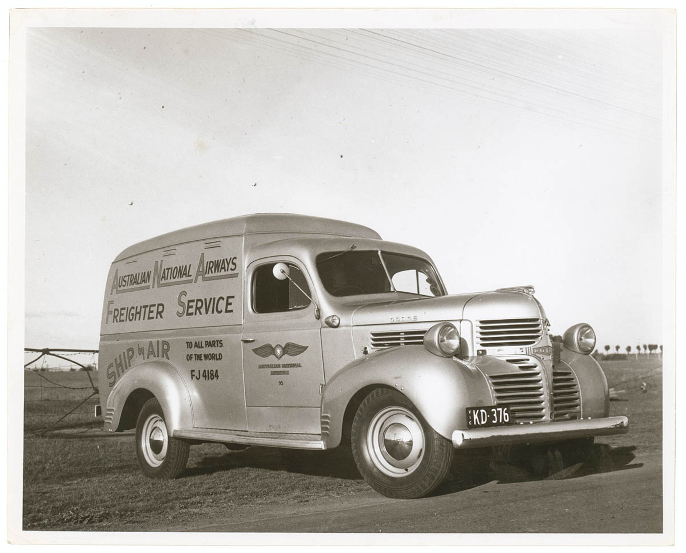 Format: Photograph Find more detailed information about this photographic collection: .au/item/itemDetailPaged.aspx?itemID=421743 Search for more great images in the State Library's collections: .au/search/SimpleSearch.aspx From the collection of the State Library of New South Wales